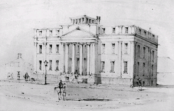 Natural History Museum on Peter Street, Manchester: by 1911, the structure had been demolished, and St George's house was built over the site.[1]